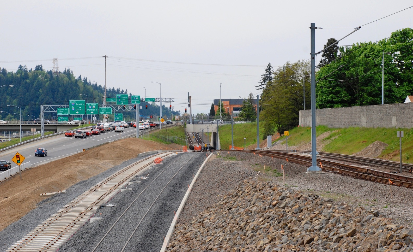 The MAX Green Line, of Portland, Oregon's light rail system, under construction in 2008. This view is looking north from E. Burnside Street, towards the underpass under Glisan Street, which the new line would share with the 1986-opened Gresham line (now the Blue Line), whose tracks and overhead catenary are at right in this photo. The exit ramp from northbound I-205 to Glisan Street is at left. The Green Line opened in September 2009.